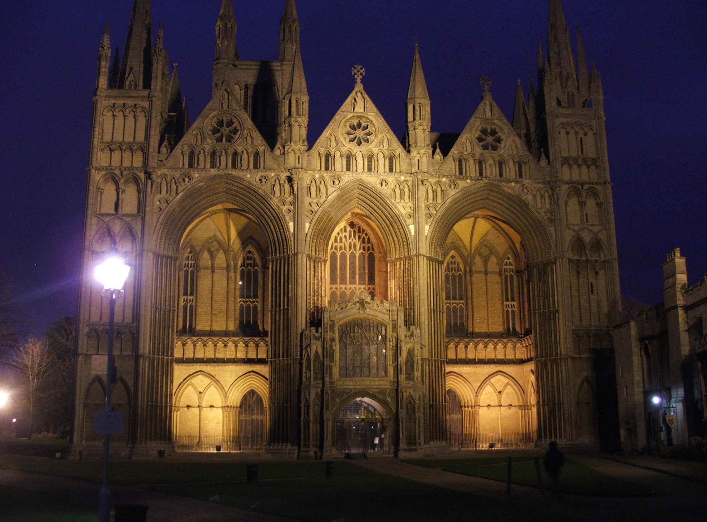 Night view of the Early English Gothic west front (1193-1230) of Peterborough Cathedral, England